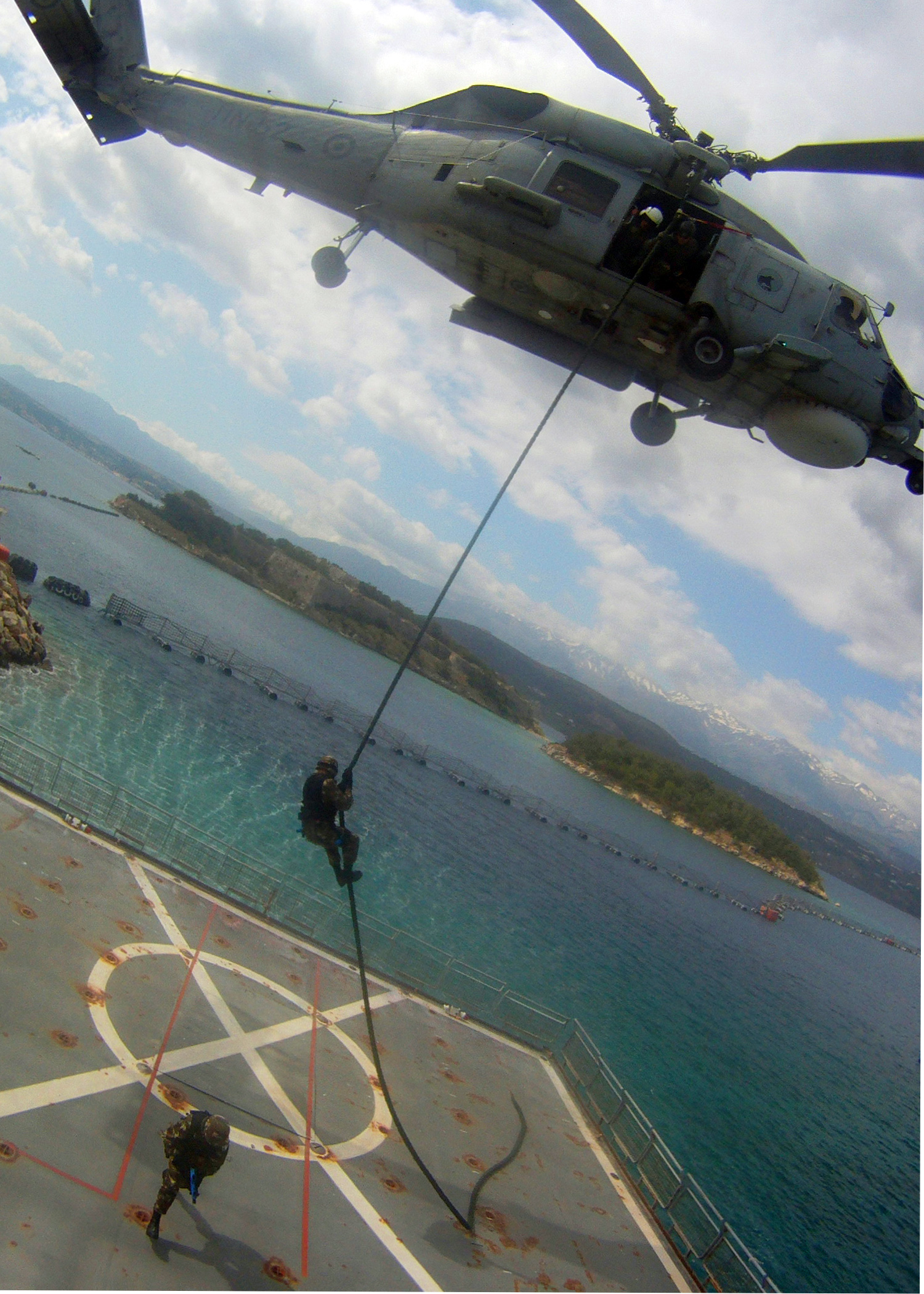 A member of an Algerian navy boarding team fast-ropes out of a Hellenic Navy S-70B-6 Aegean Hawk helicopter assigned to the 2nd Squadron onto the training ship Aris (A 74) at the NATO Maritime Interdiction Operational Training Center on Souda Bay in Greece May 17, 2012, during Phoenix Express 2012. Phoenix Express is a two-week exercise designed to strengthen maritime partnerships and enhance stability in the region through increased interoperability and cooperation among partners from Africa, Europe and the United States.